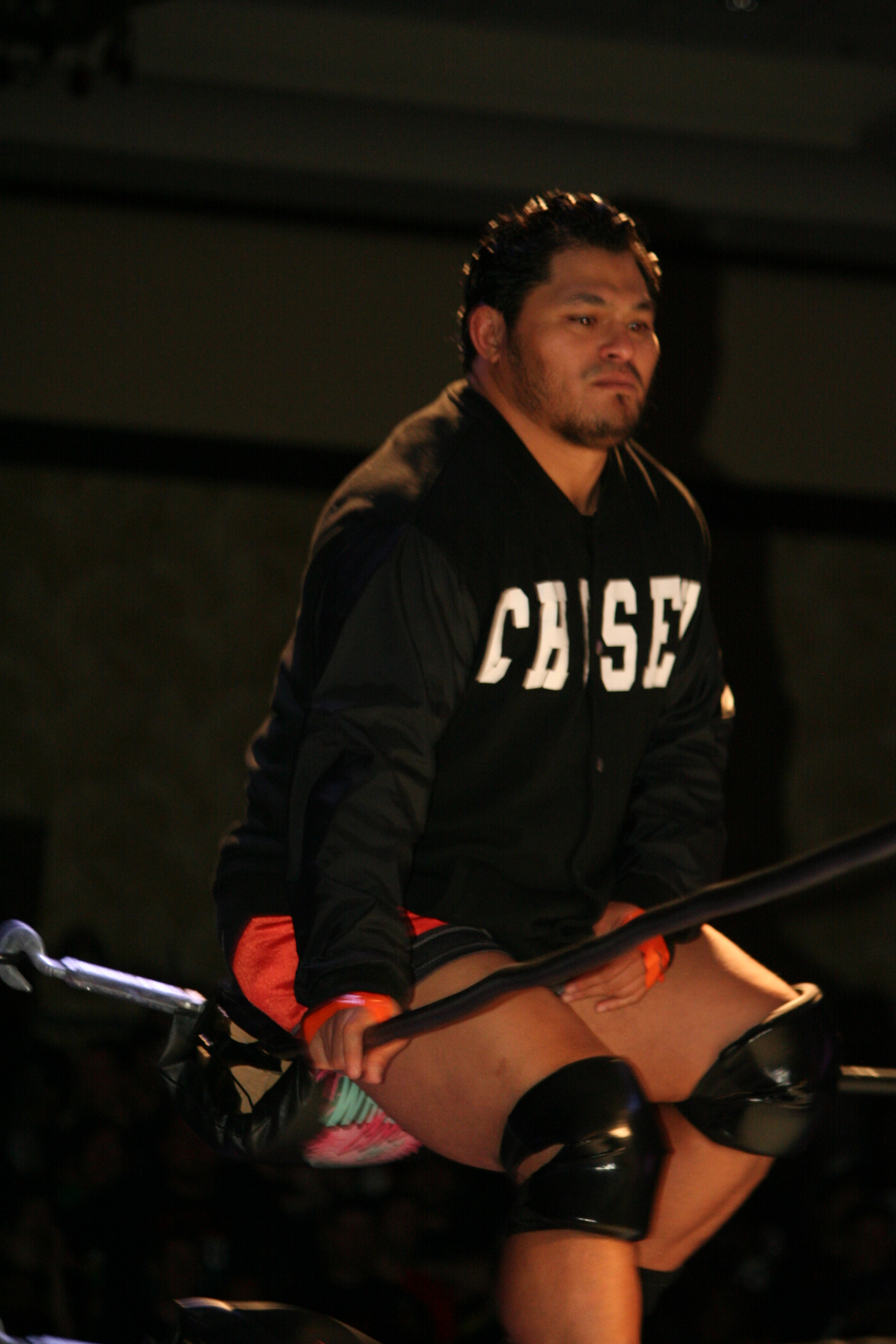 Wrestler Jeff Cobb sitting on one of the ring turnbuckles before a match.